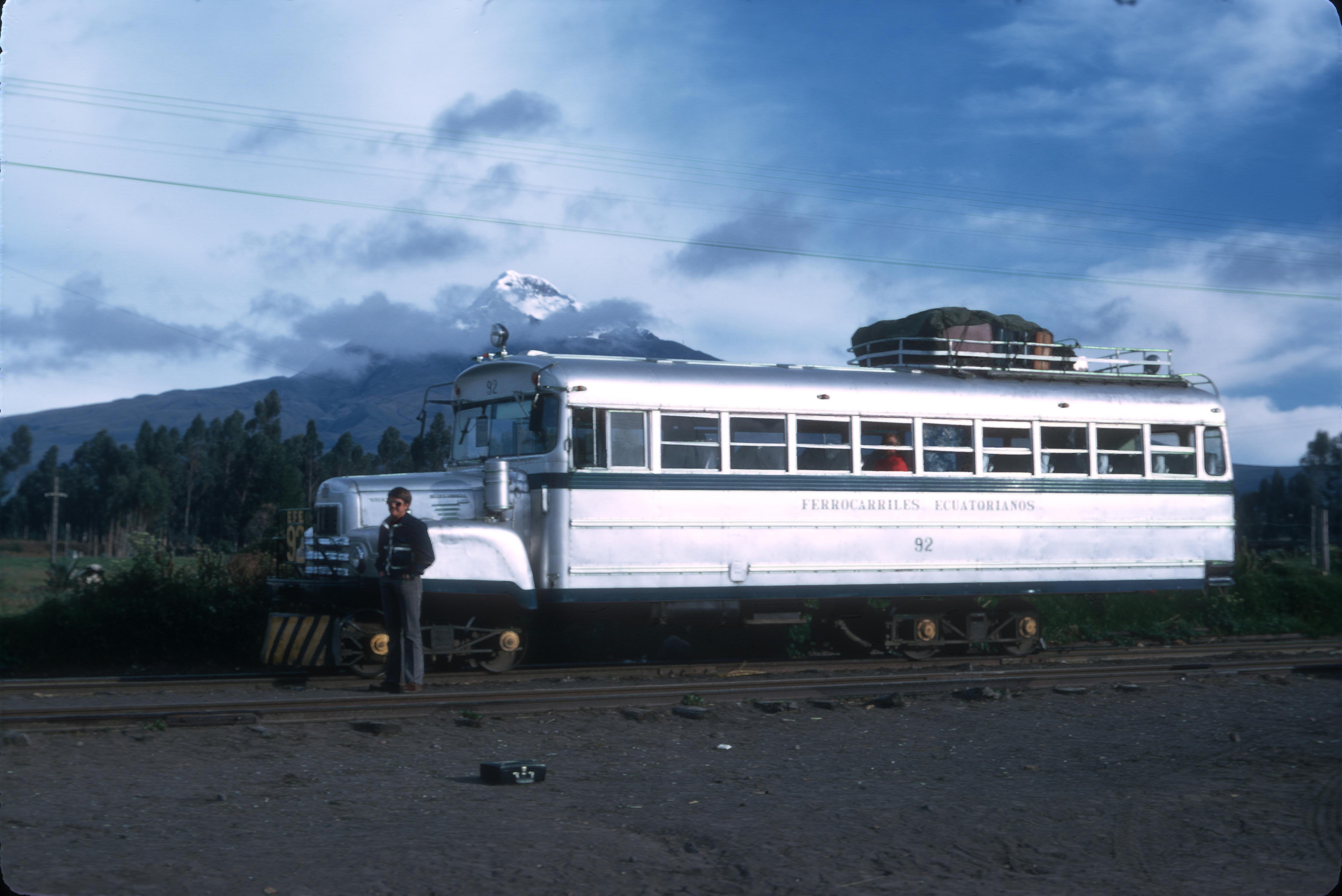 THIS IS A SPECTACULAR RIDE FROM QUITO TO GUAYAQIL PASSING BY SNOW COVERED ANDES MOUNTAINS INCLUDING CHIMBORAZO AND TERMINATING IN GUAYAQUIL AFTER PASSING THROUGH JUNGLES IN ITS DESCENT. THE TRIP TAKES ALL DAY AND STARTS VERY EARLY IN THE MORNING. It's clear from related photos and other info that this photo was taken in the early 1970s, not 2007